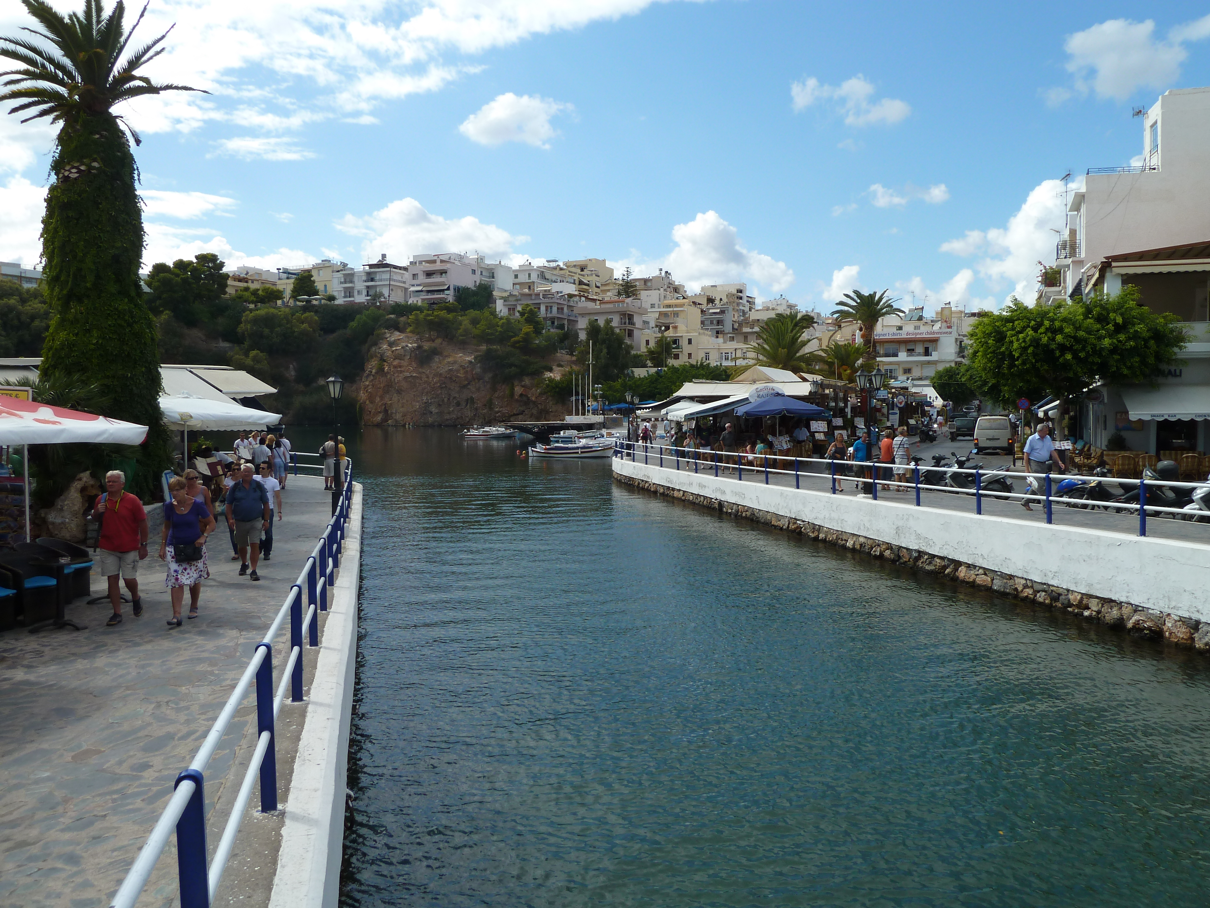 Agios Nikolaos, Crete, Greece